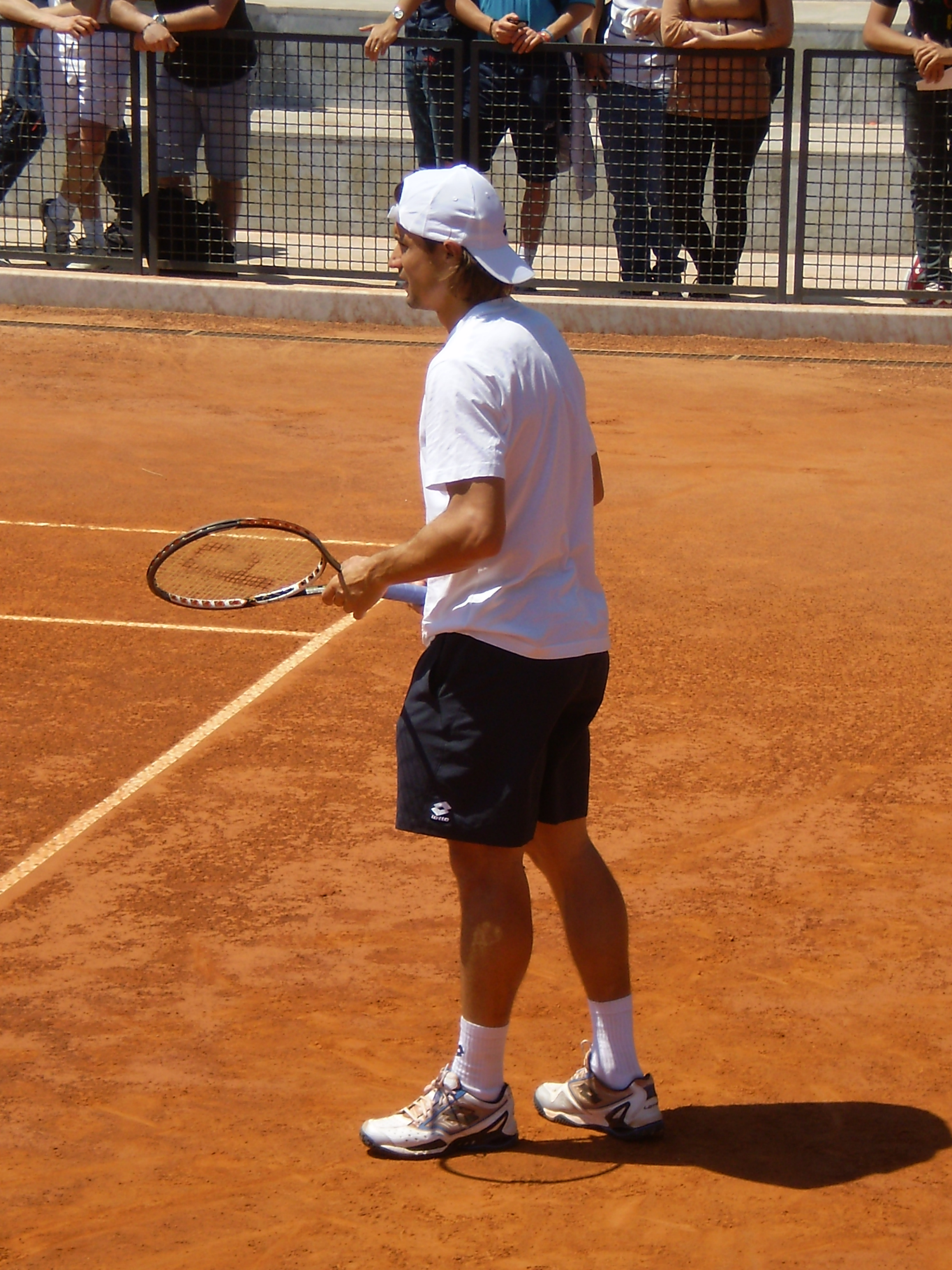 David Ferrer training in Rome 2011